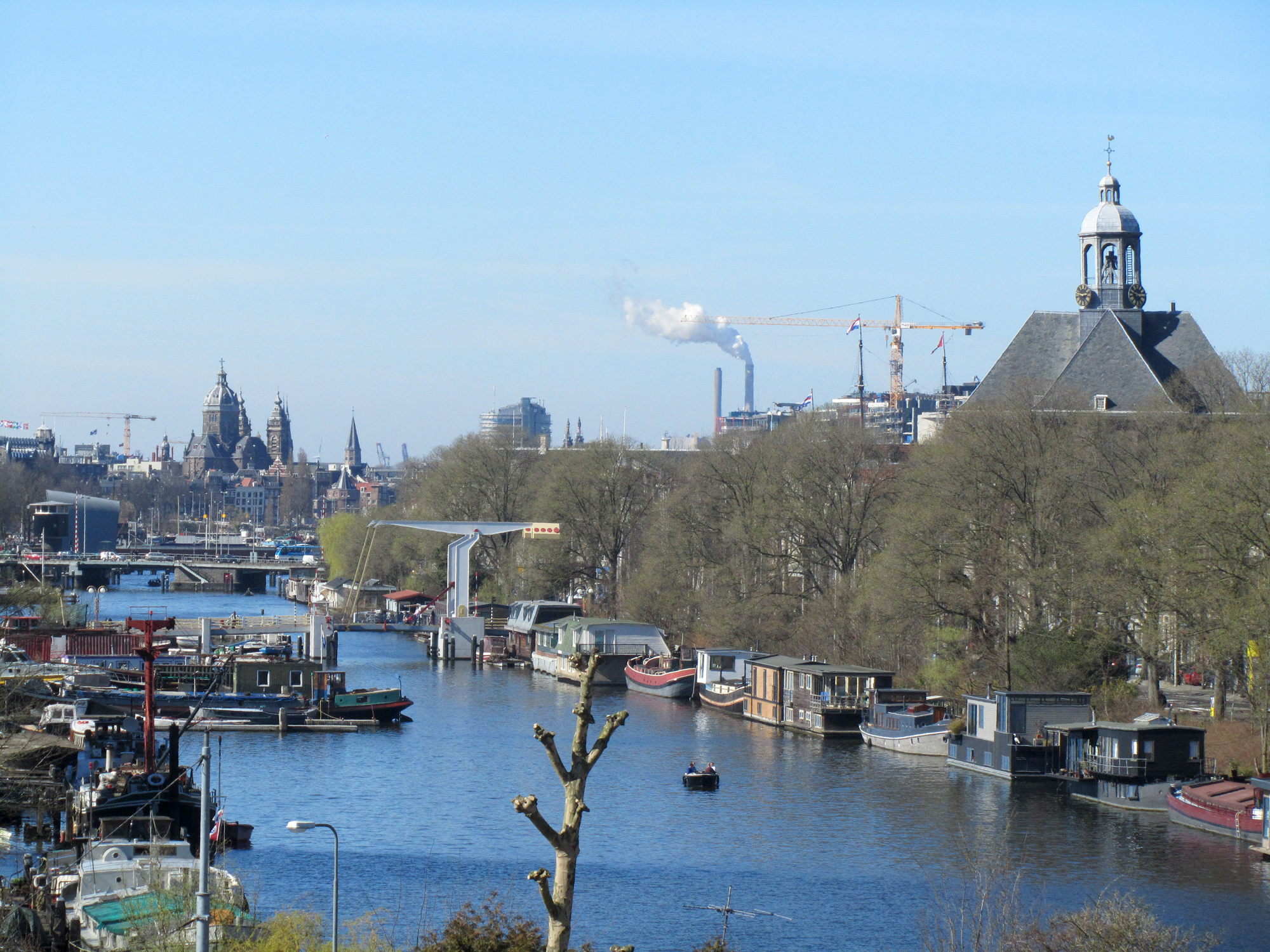 Nieuwe Vaart canal in Amsterdam, looking northwest. Visible buildings include the Oosterkerk (right), the Sint-Nicolaaskerk, the Schreierstoren, and ARCAM.